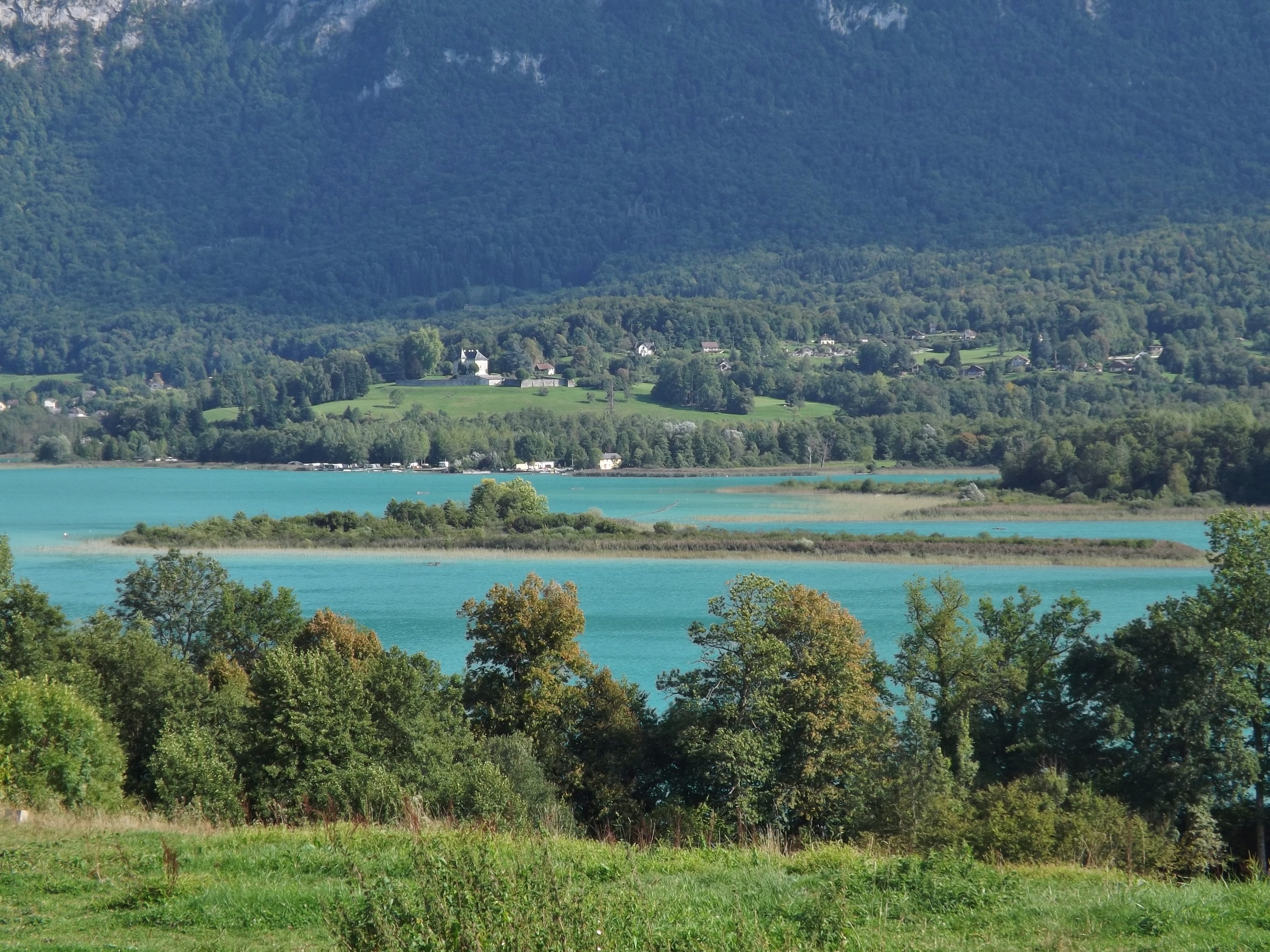 Panoramic sight, from Saint-Alban-de-Montbel, on one of the two islands of the lac d'Aiguebelette lake, in Savoie, France.